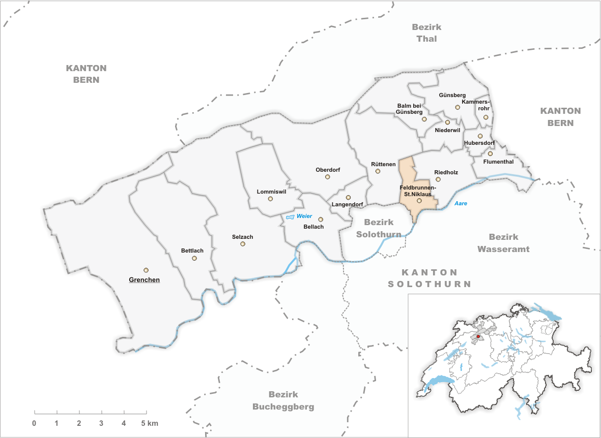 Municipality Feldbrunnen-St.Niklaus